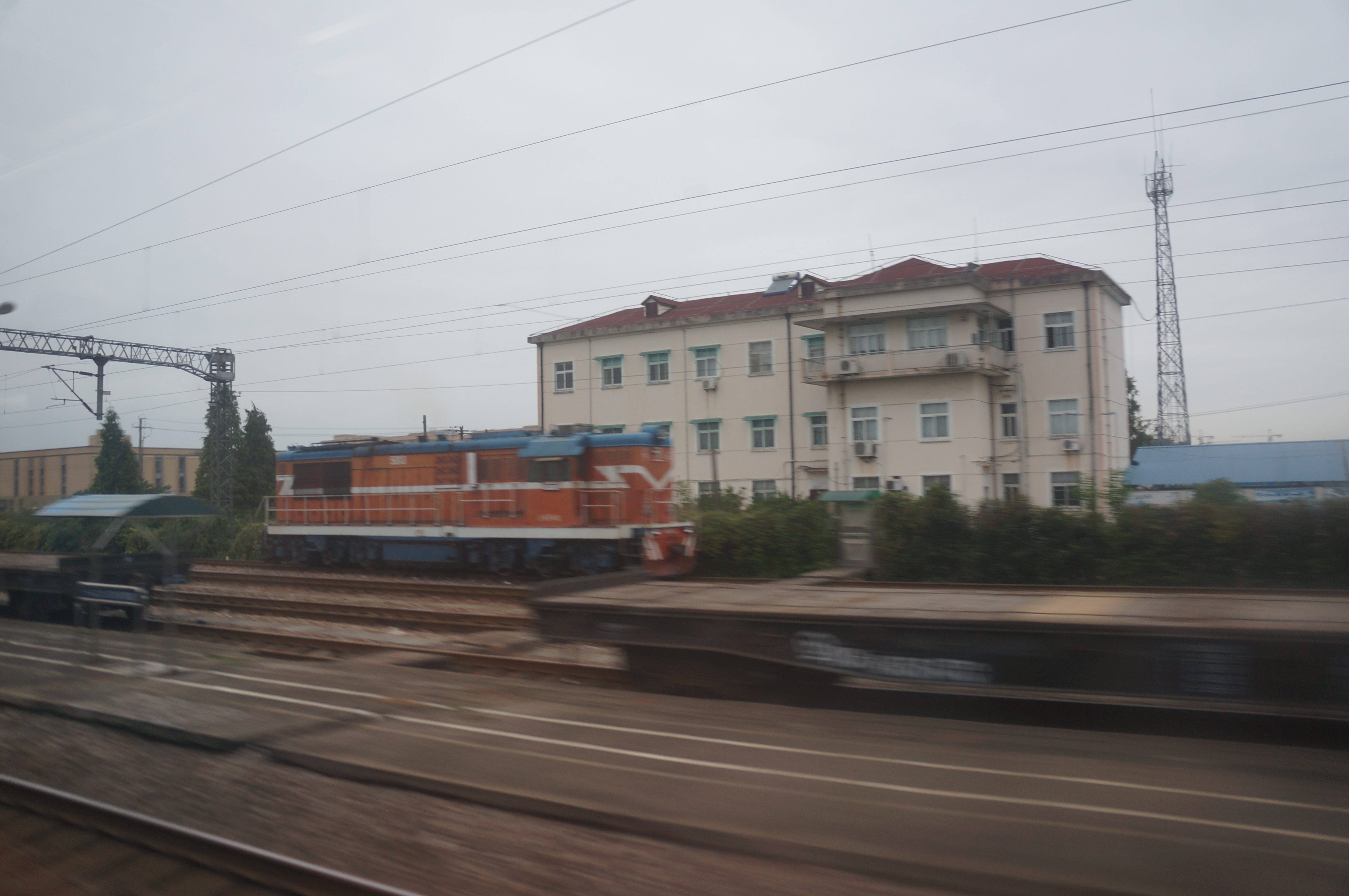 201610 T81 passes Jiaxingdong Station